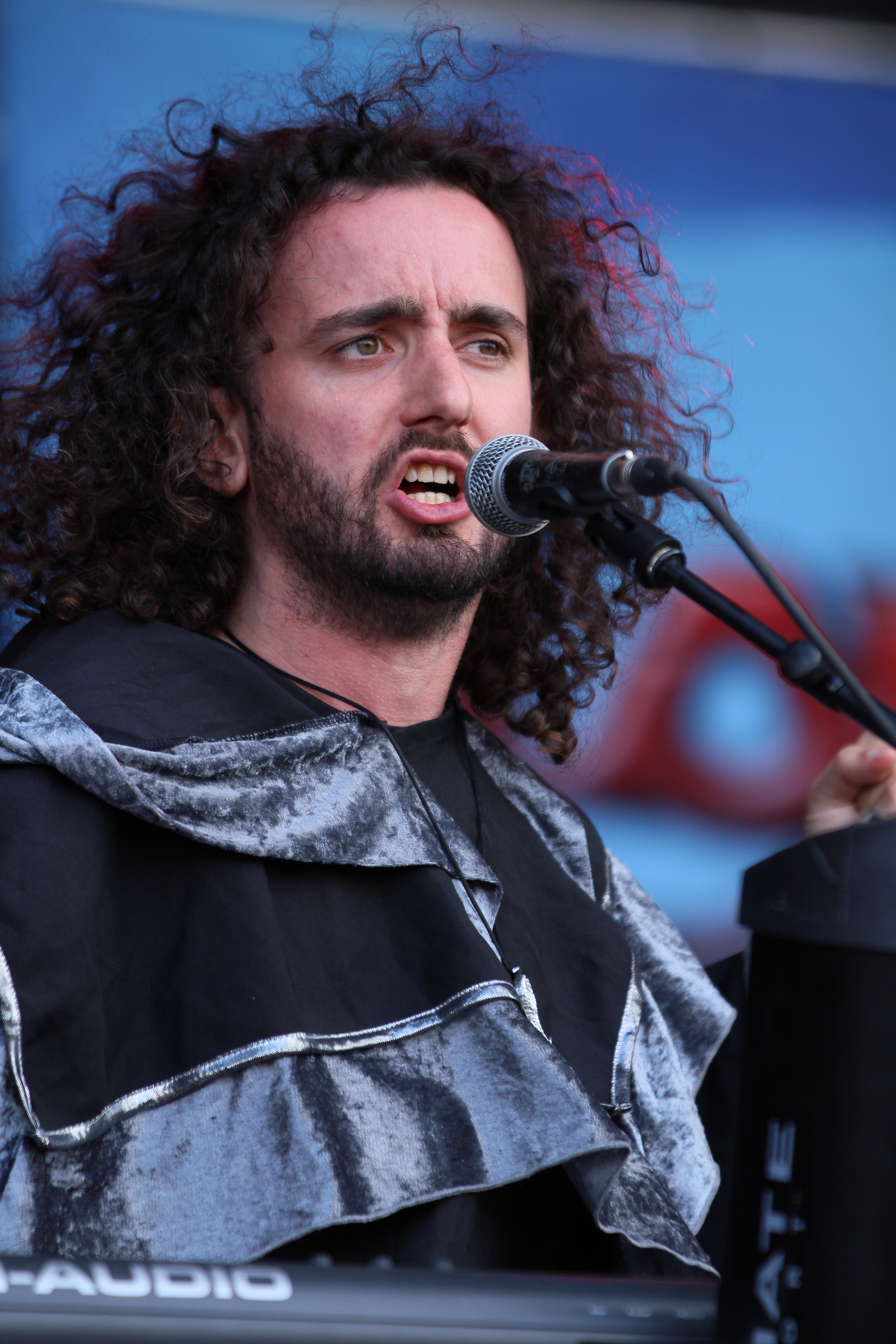 The Scottish-Swiss power metal band Gloryhammer at the Rockharz Open Air 2014 in Ballenstedt/Germany